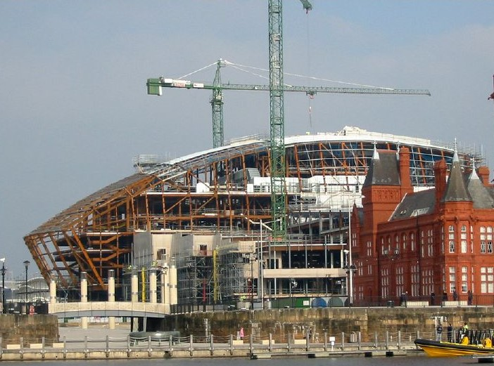 Wales Millennium Centre under construction, Cardiff, Wales